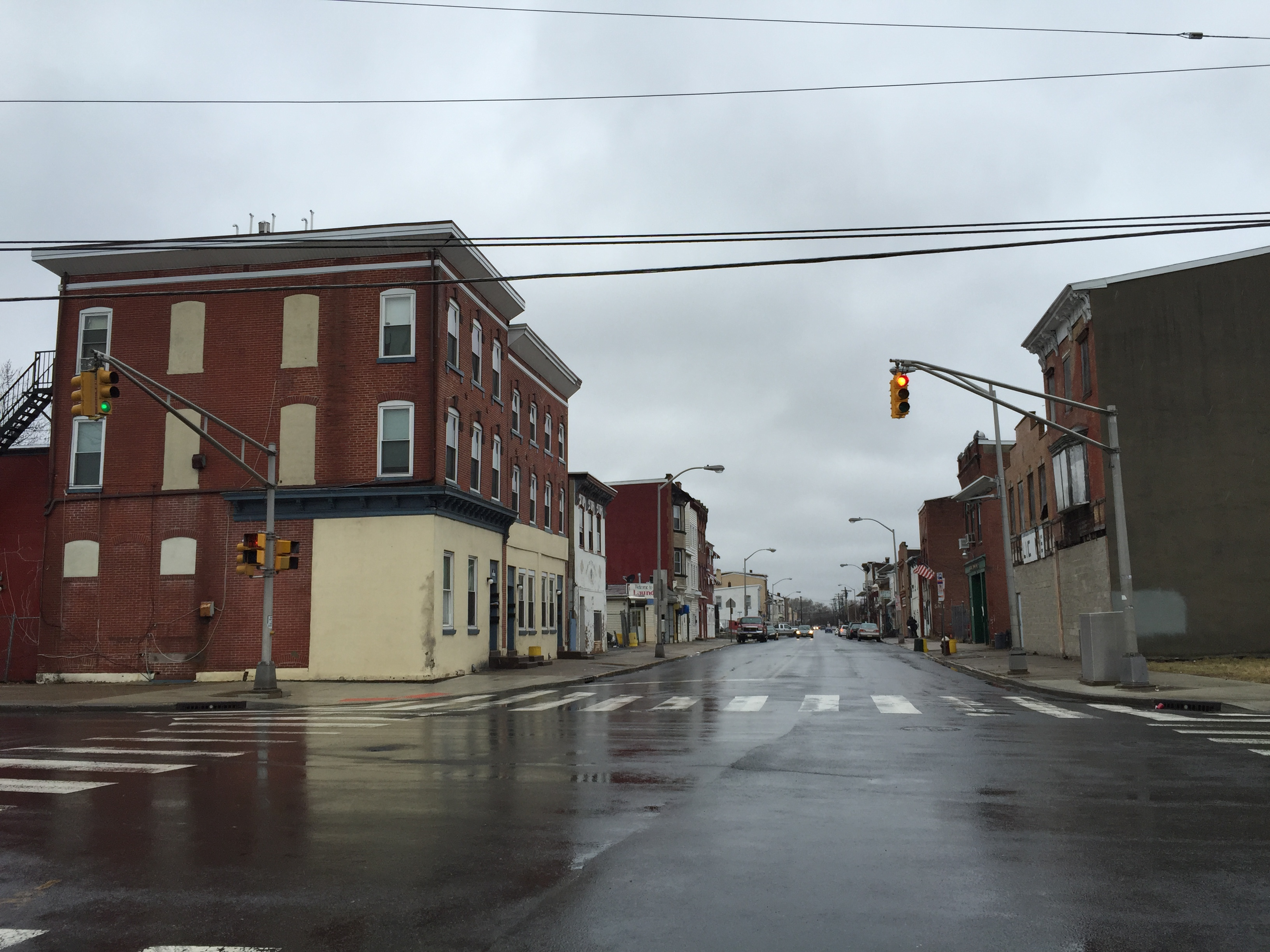 View southwest along North Clinton Avenue at the intersection with Olden Avenue (Mercer County Route 622) in the East Trenton section of Trenton, New Jersey